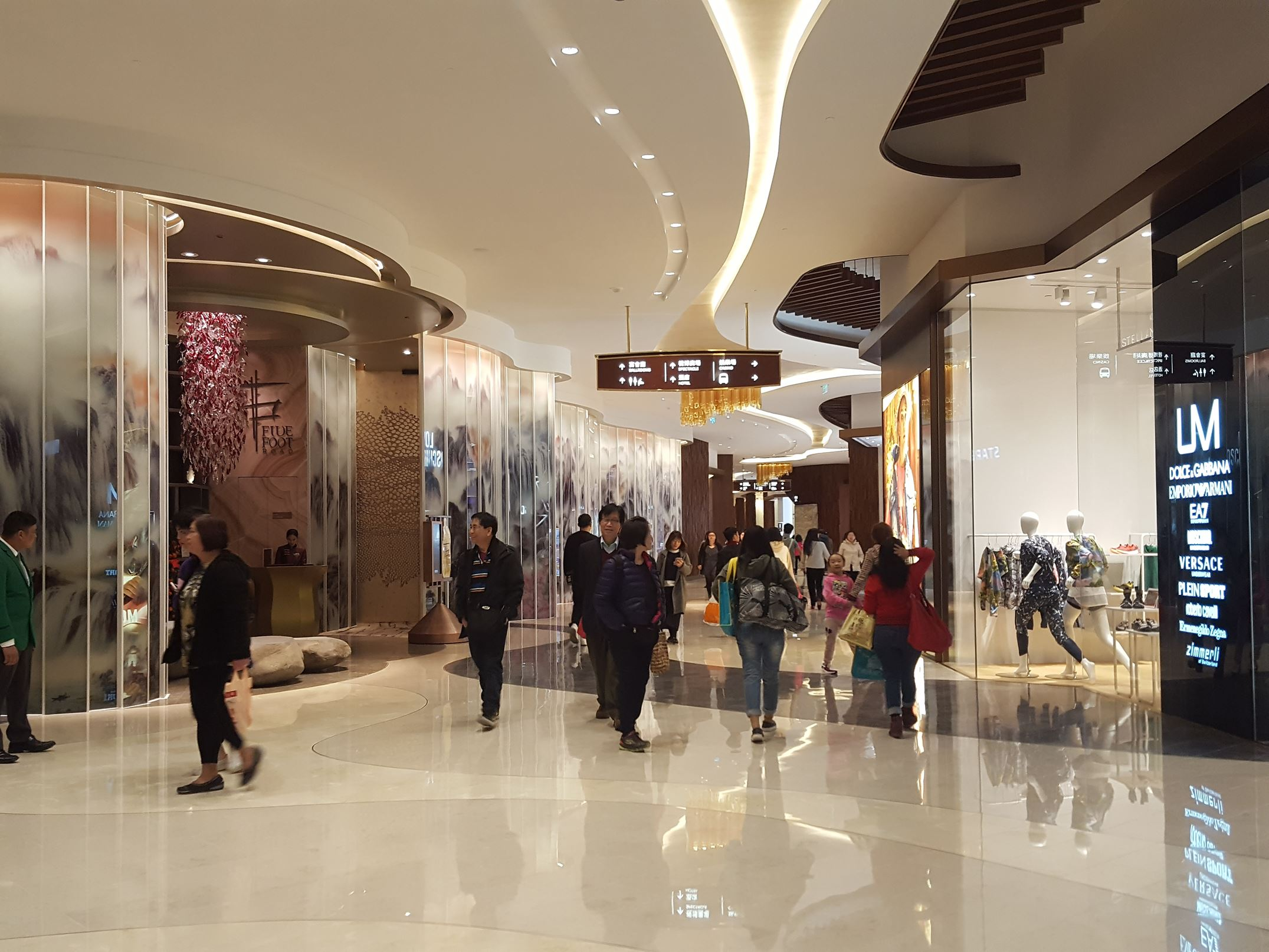 MGM Cotai